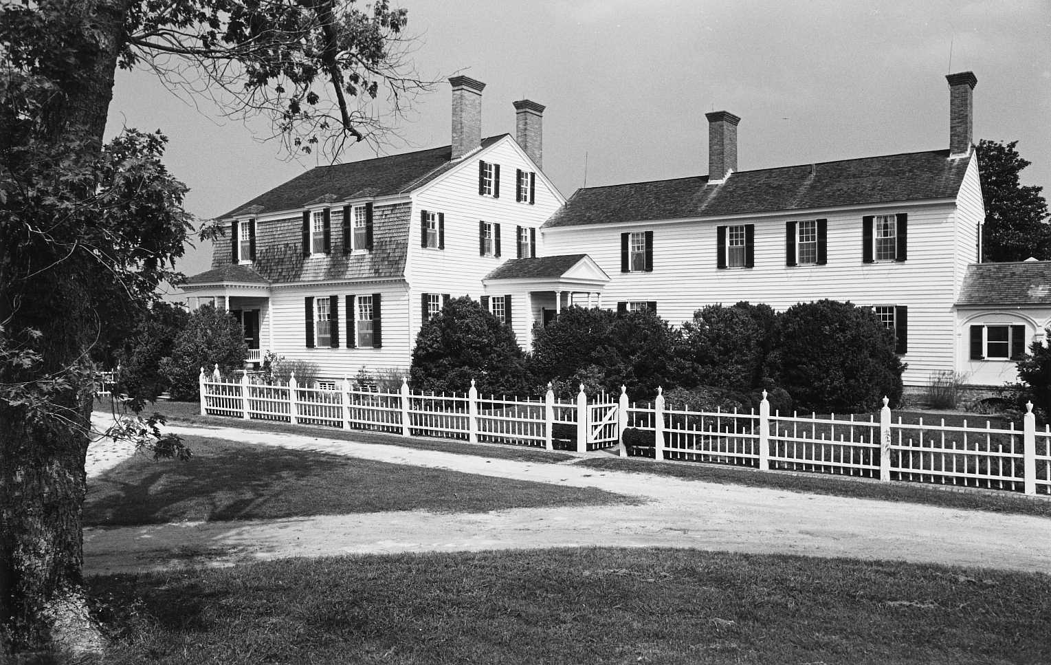 Eyre Hall from the NRHP archives